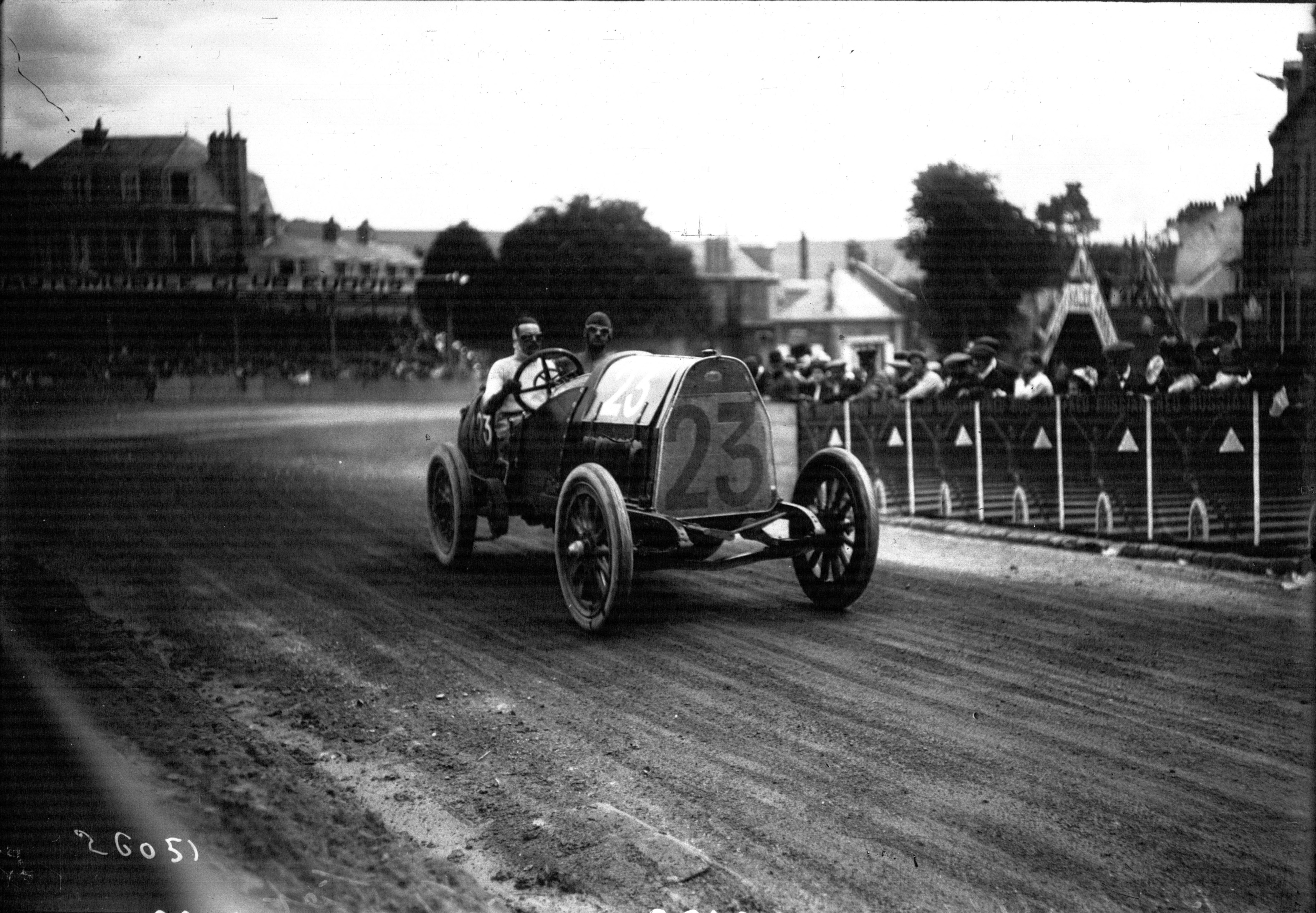 Louis Wagner in his Fiat at the 1912 French Grand Prix at Dieppe.